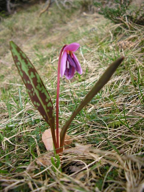 (en) Erythronium dens-canis, a photography originating of the internet site The accord of the autor, H. Brisse, is here. (fr) Erythronium dens-canis, une photographie issue du site internet L'accord de l'auteur, H. Brisse, se situe ici.